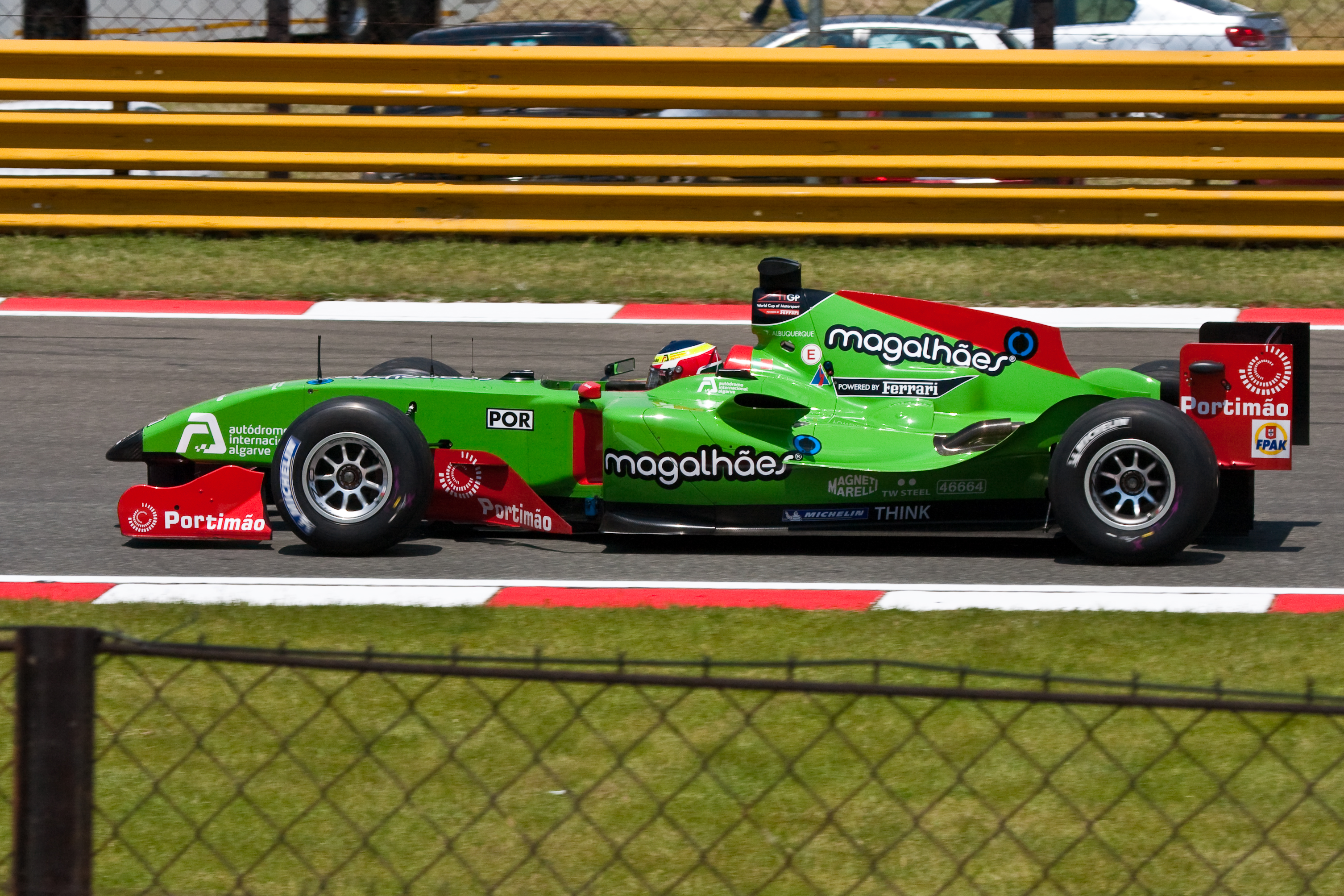 Team Portugal @ A1 Grand Prix Kyalami South Africa 2009